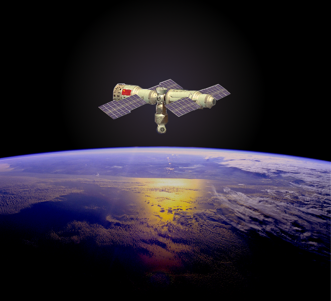 Impression of the Chinese Space Station by the artist Penyulap.